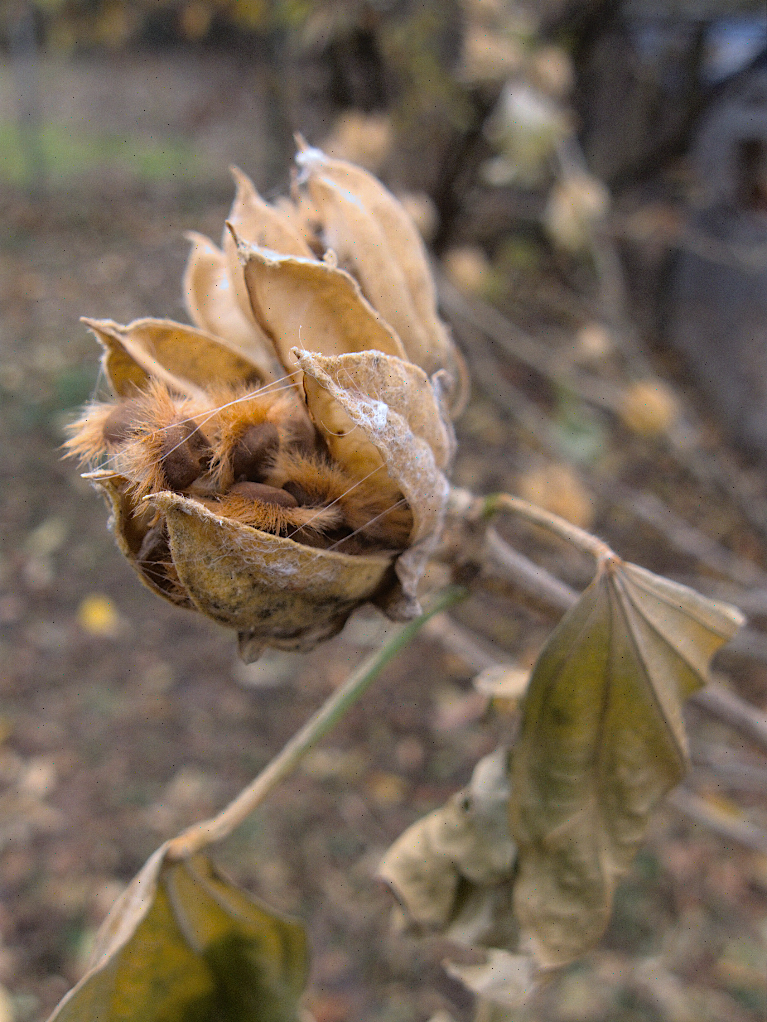 Seeds of Rose of Sharon (Hibiscus syriacus) in December